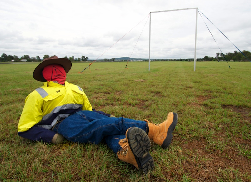 A photograph of Outback Joe at Kingaroy airport. Outback Joe is seen here relaxing during the Airborne Delivery Challenge segment of the 2010 UAV Challenge - Outback Rescue, also known as the UAV Outback Challenge. This photograph was taken by Stefan Hrabar of CSIRO (one of the organisers of the 2010 UAV Outback Challenge).